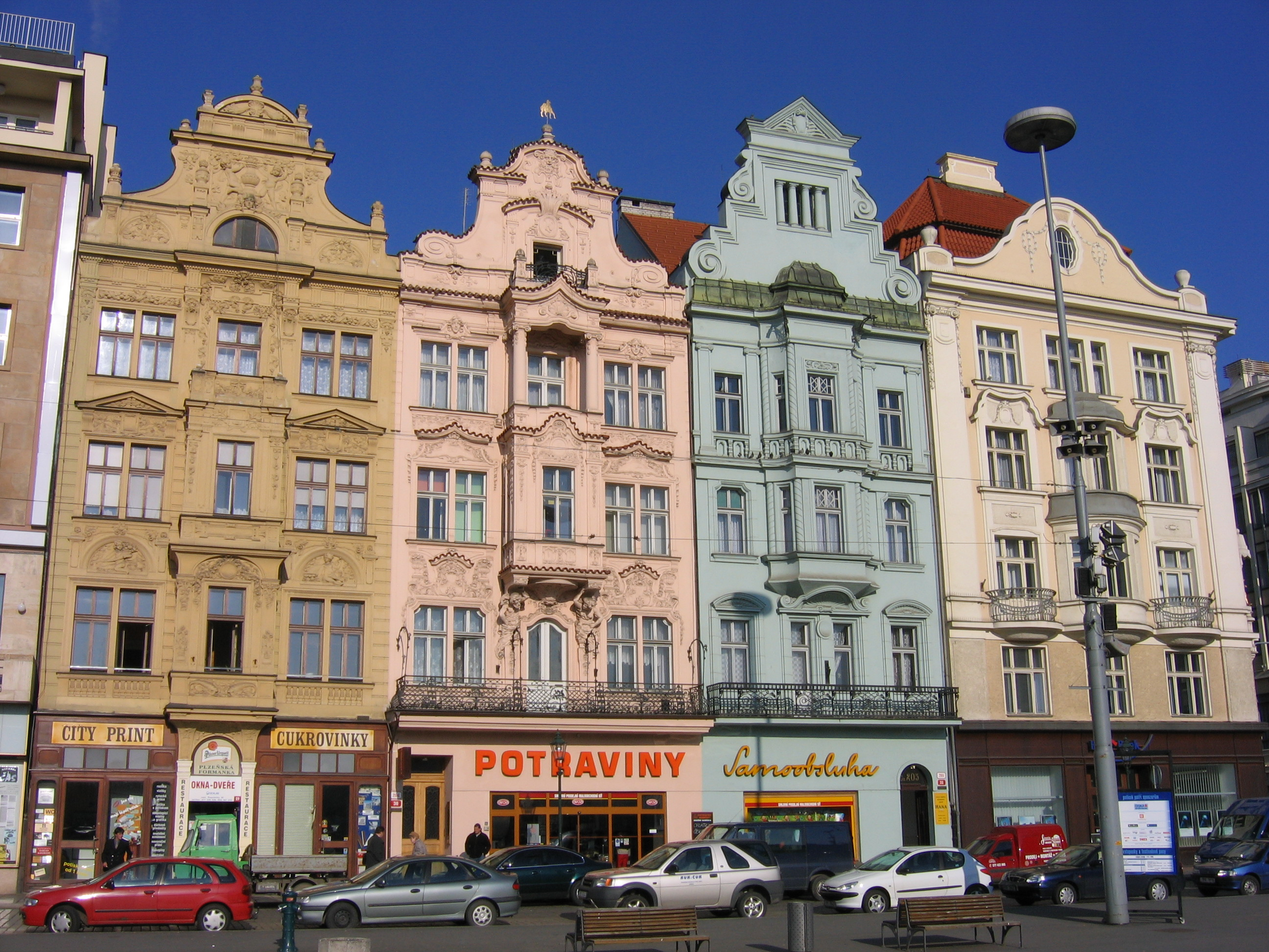 City of Plzeň, Czech Republic. Pilsen, Tschechien. Buildings at the main square "Namesti Republiky".